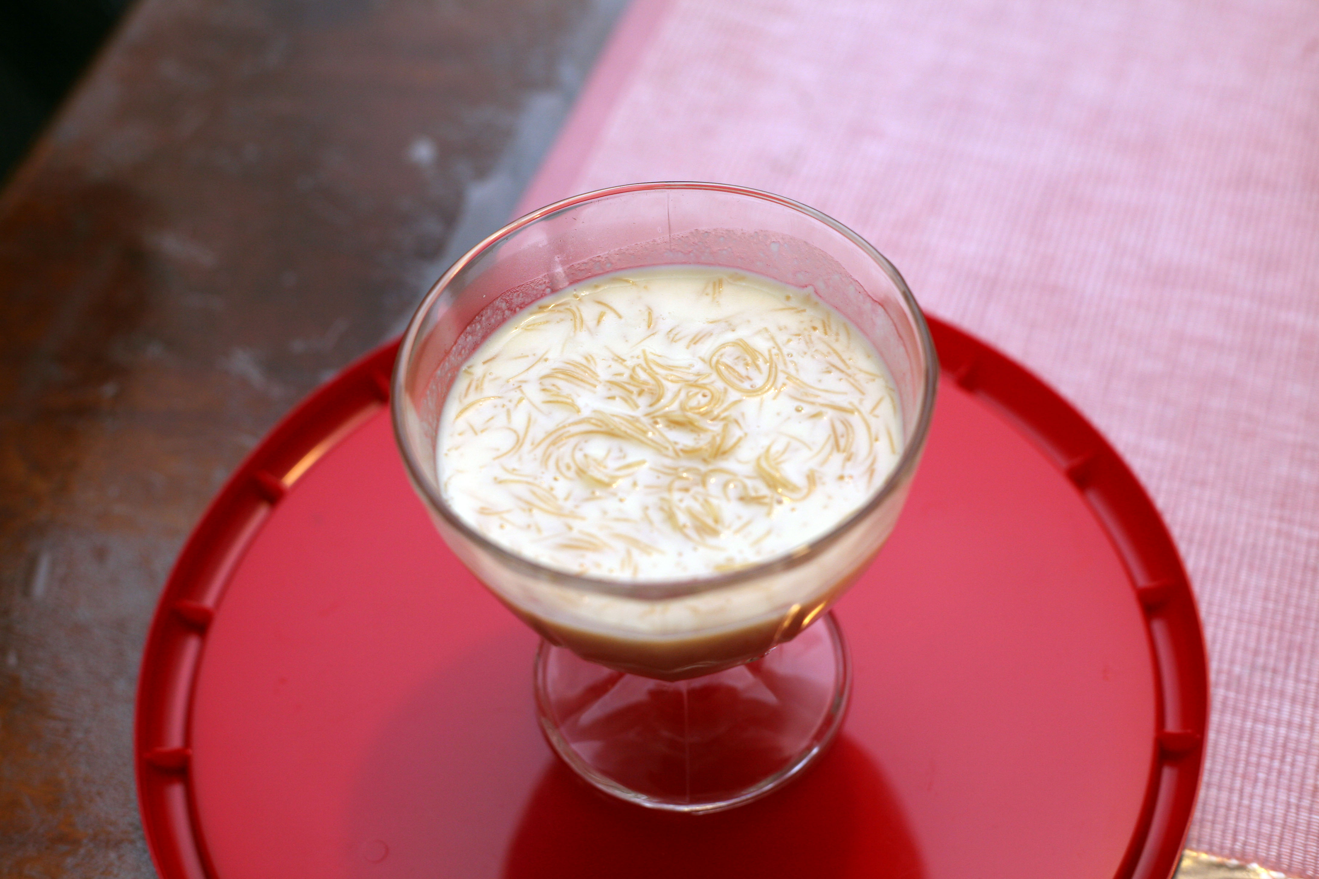 Pakistani Seviyan Vermicelli